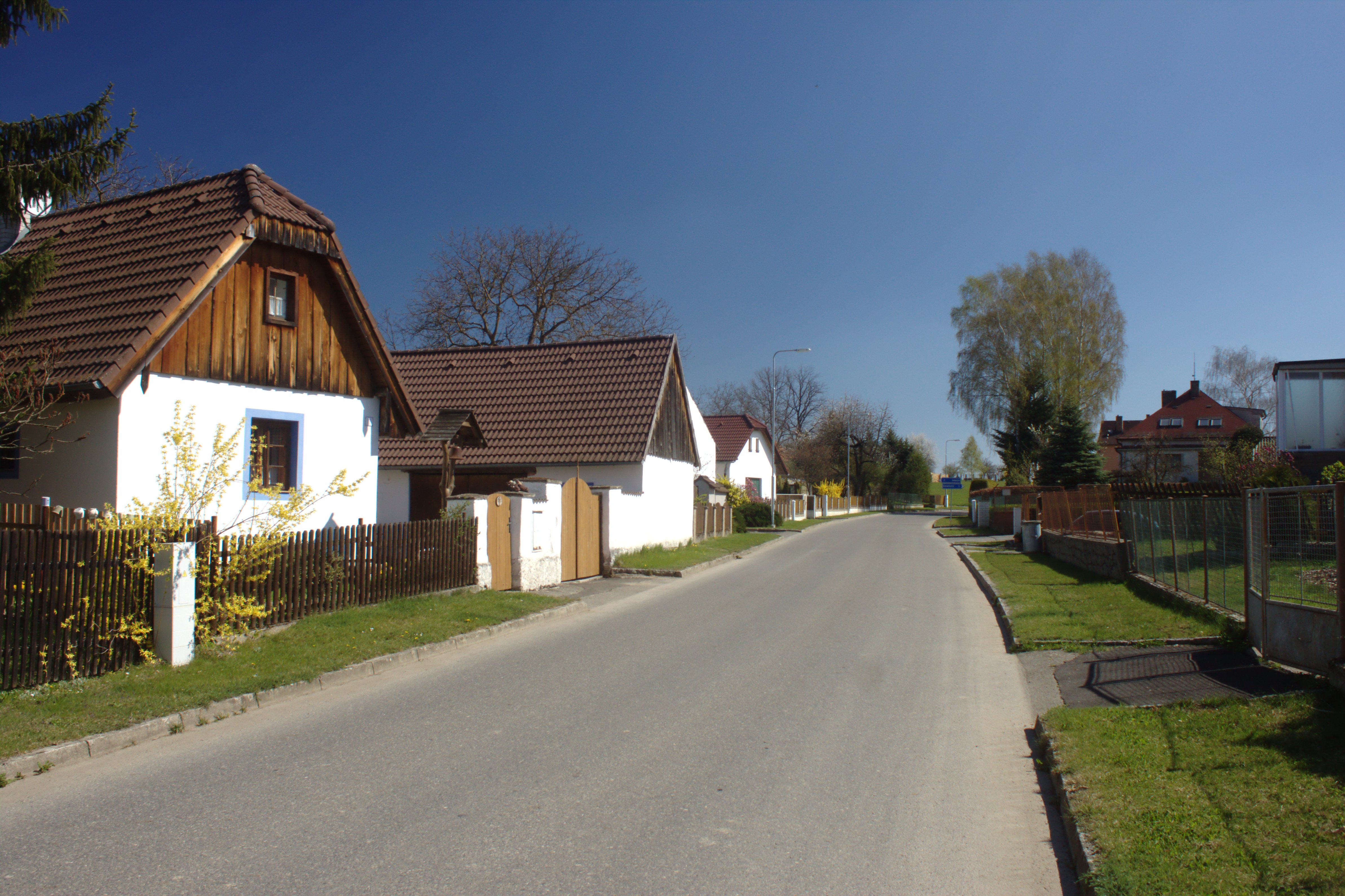 This photograph was created as a part of Wikiexpedition Mladá Vožice, a project supported by Wikimedia Foundation grant.